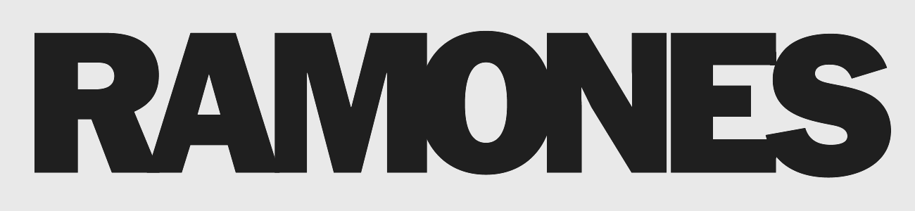 Logosign of the punk band Ramones. The Ramones wordmark might be trademarked.